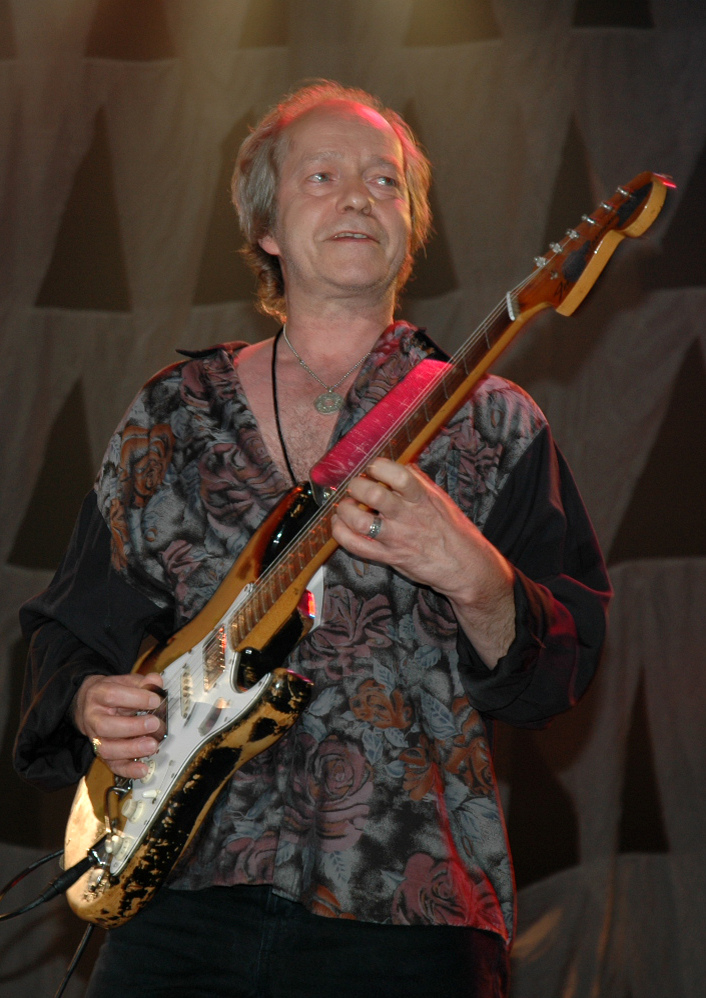 Eric Bell at the unveiling gig commemorating Thin Lizzy's frontman, Philip Lynott. Dublin, August 2005